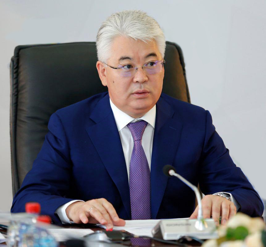 Beibut Atamkulov